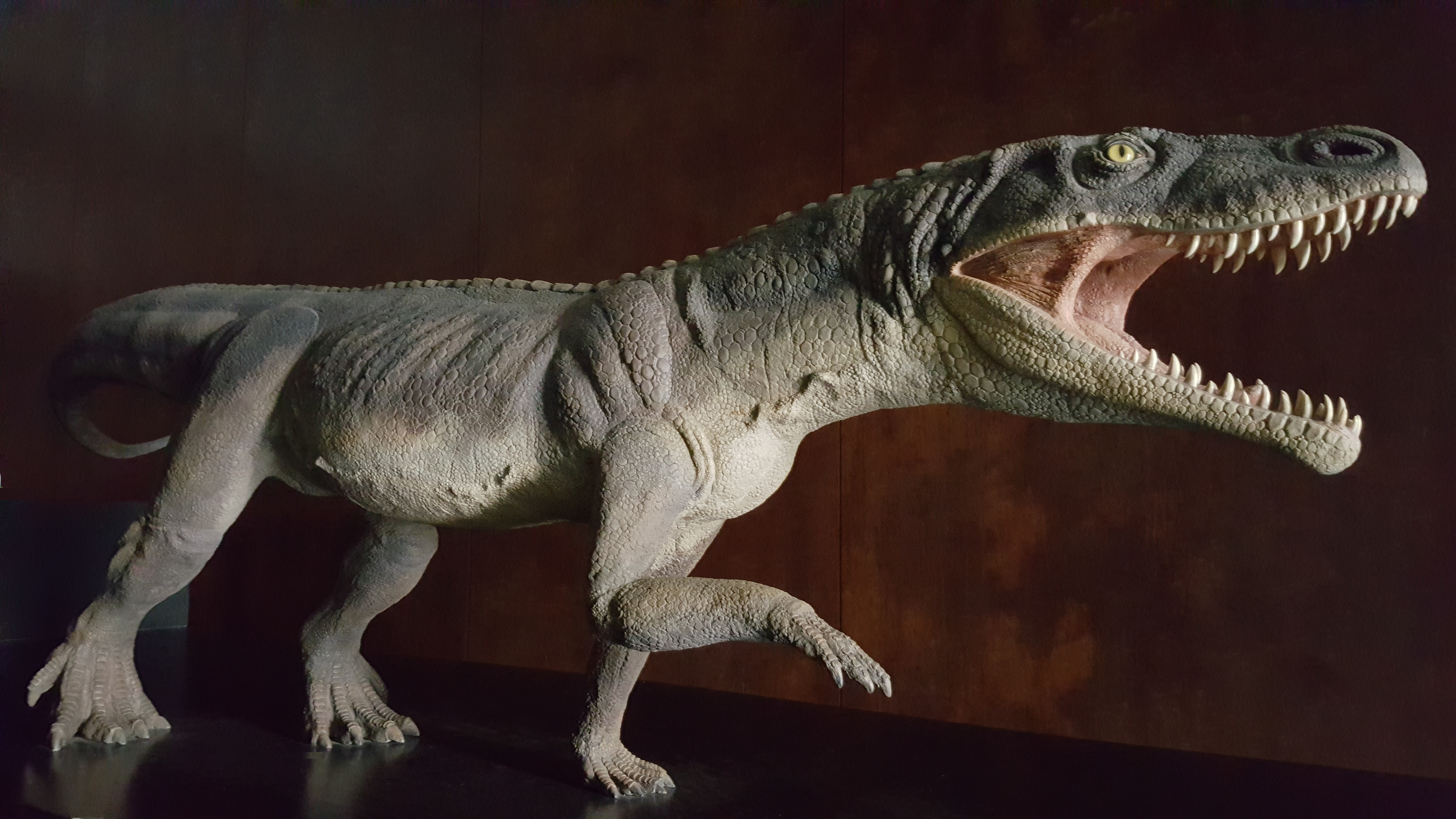 Ticinosuchus ferox, Museum of fossils from Monte San Giorgio (Meride)